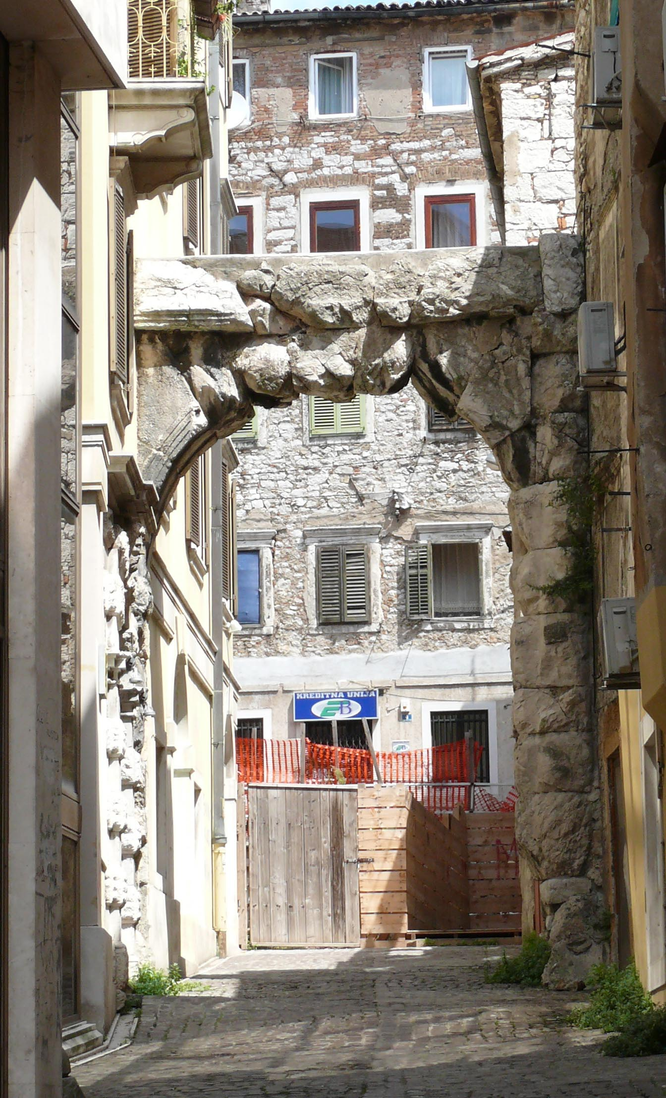 Porta Romana - Rijeka city -Croatia